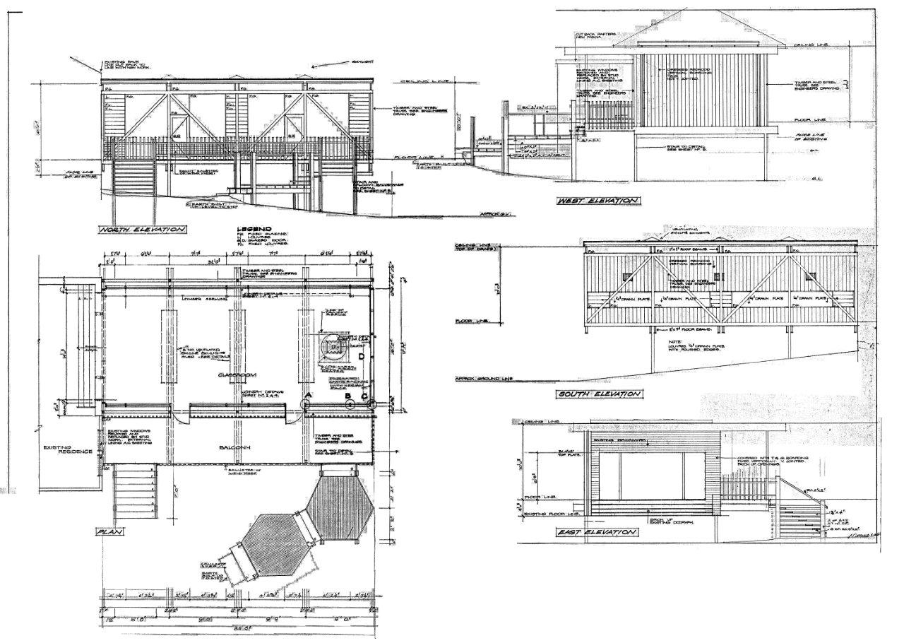 Preshil Plan